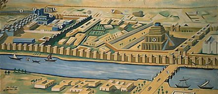 Plan of Babylon 600 B.C